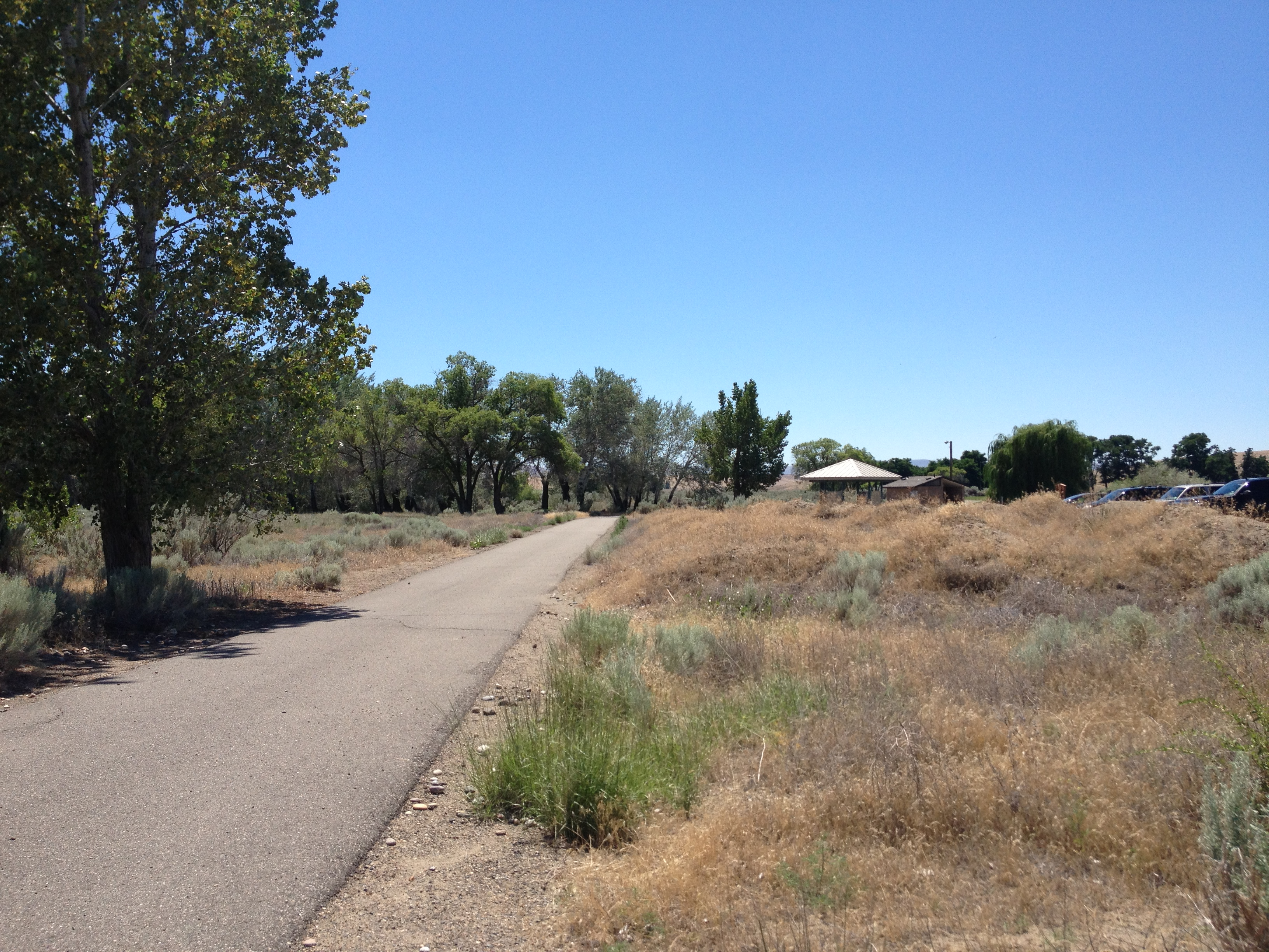 Camp Columbia on the Yakima River in Washington State Will incorporate into Camp Columbia (Hanford) page. Williamborg (talk) 23:10, 30 June 2013 (UTC)